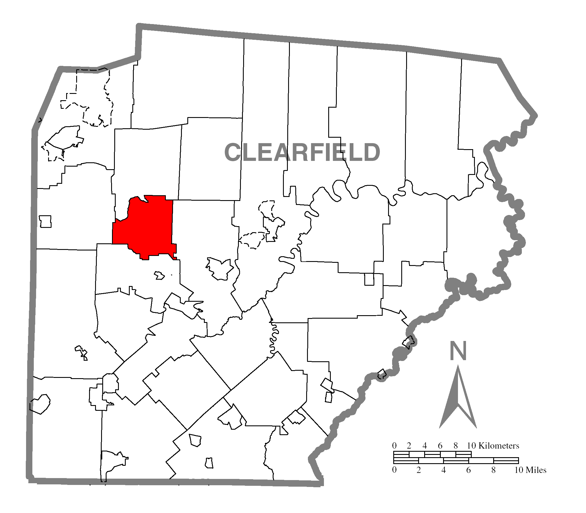 A map of Clearfield County showing Bloom Township, Pennsylvania (alternate) highlighted on the map.